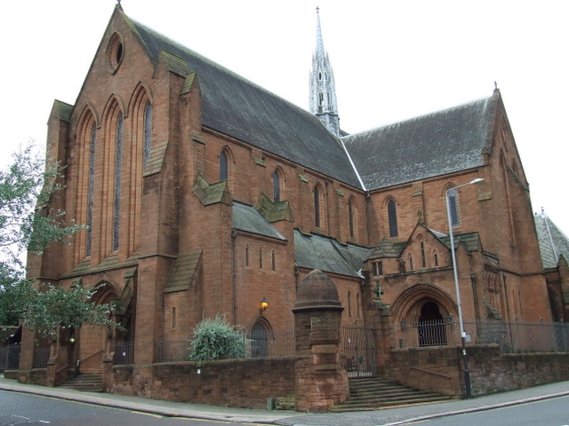 Barony Hall. University of Strathclyde Barony Hall is a former church on High Street. See also 939966.